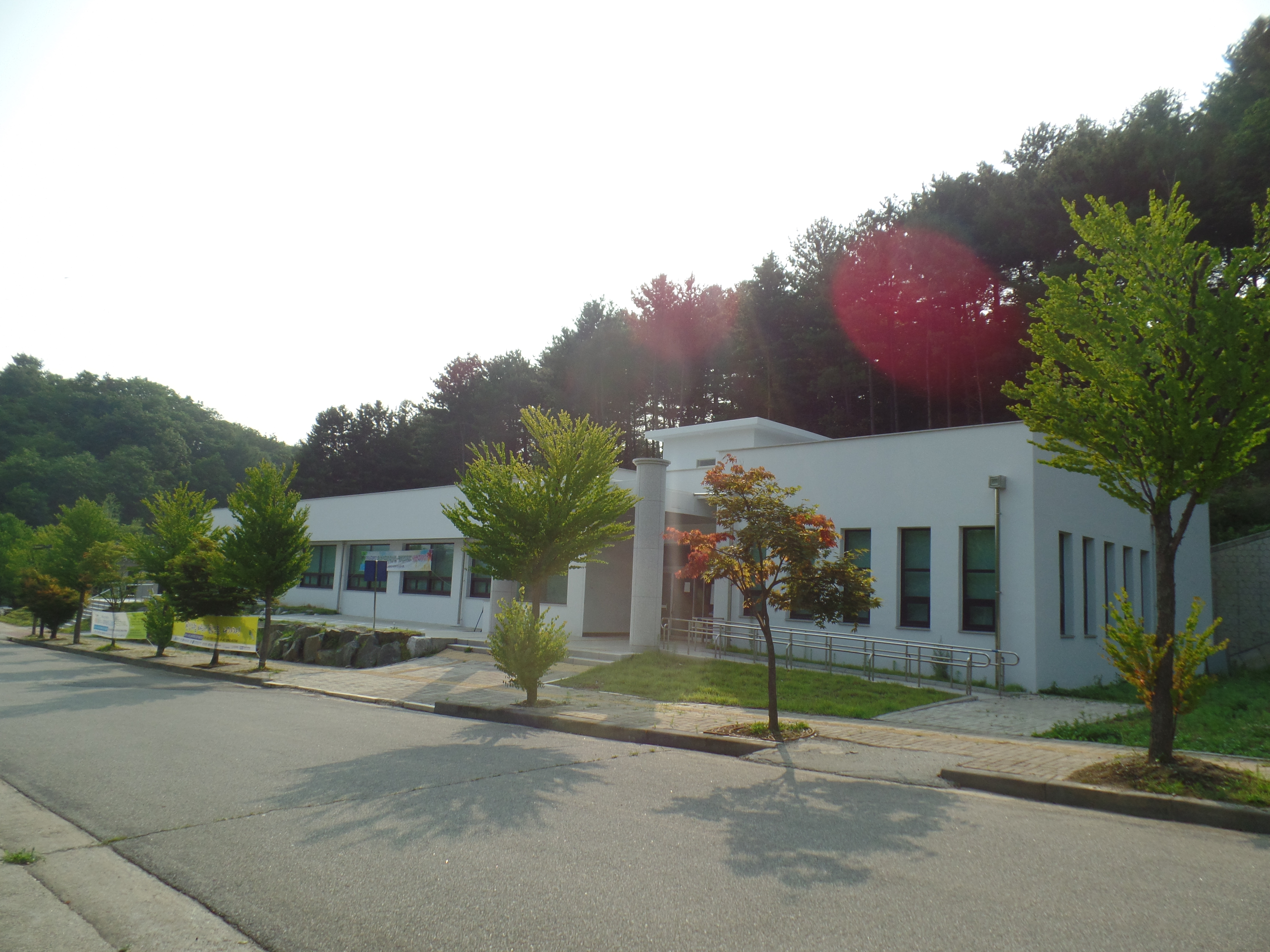 Songgok College Lecture Hall